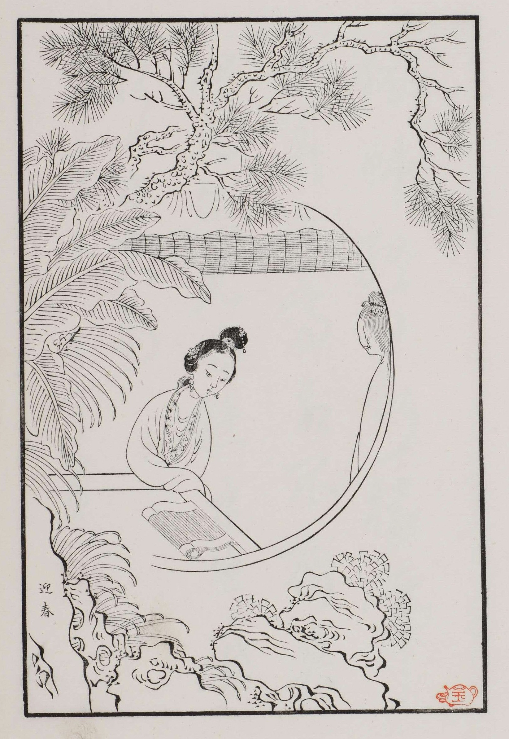 Jia Yingchun